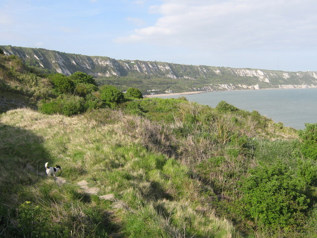 East Cliffs and Warren Country Park This rough ground is above East Wear Bay, close to Martello Tower No.3. A path leads through this to the beach down on the Bay.